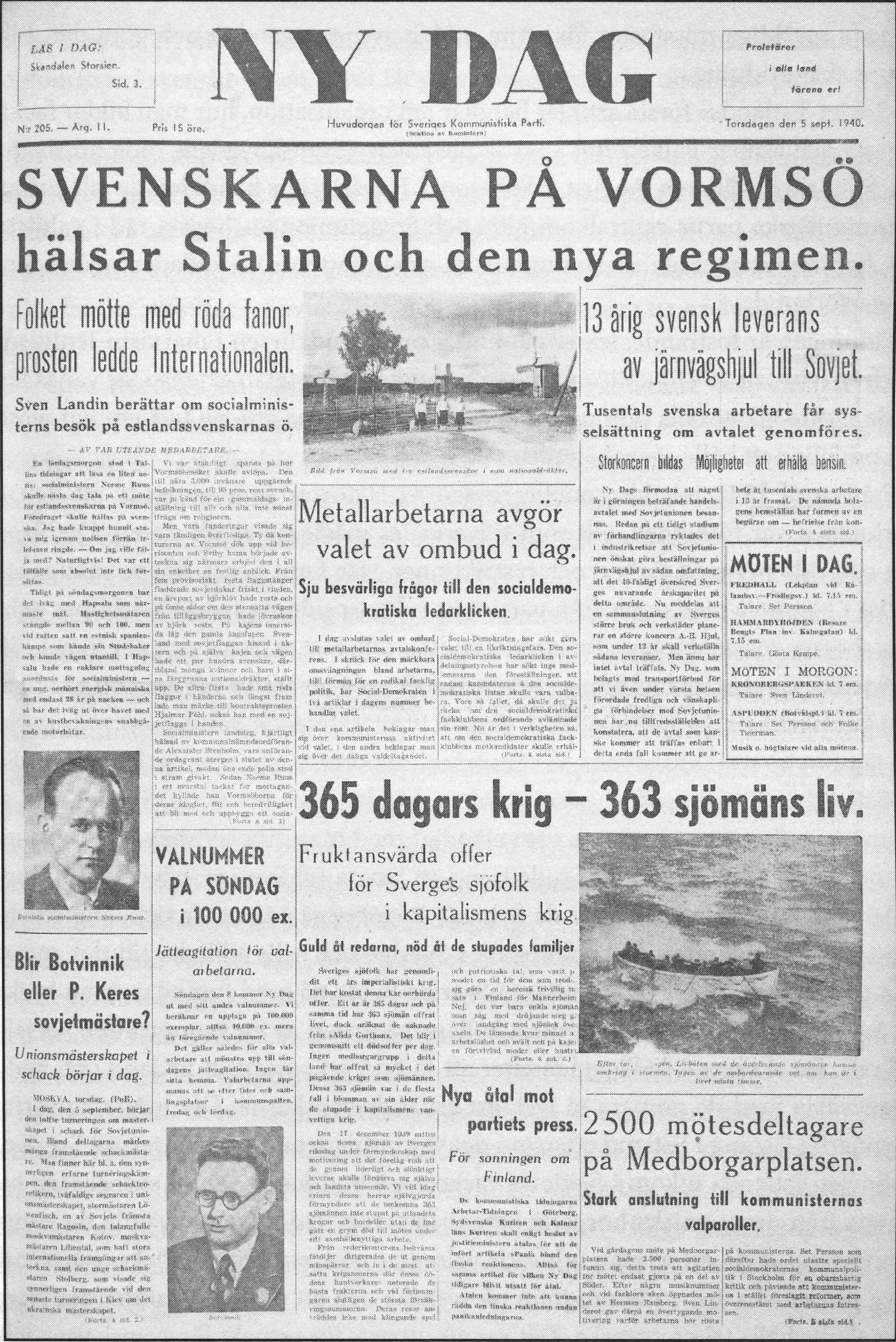 Swedish communist daily New Dag reports about Soviet's occupation of Estonia. The headline says: "The Swedes on Wormsö greets Stalin and the new regime".